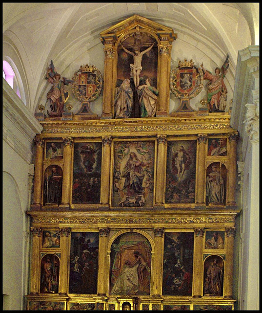 Retablo Mayor de Huelgas Reales de Valladolid